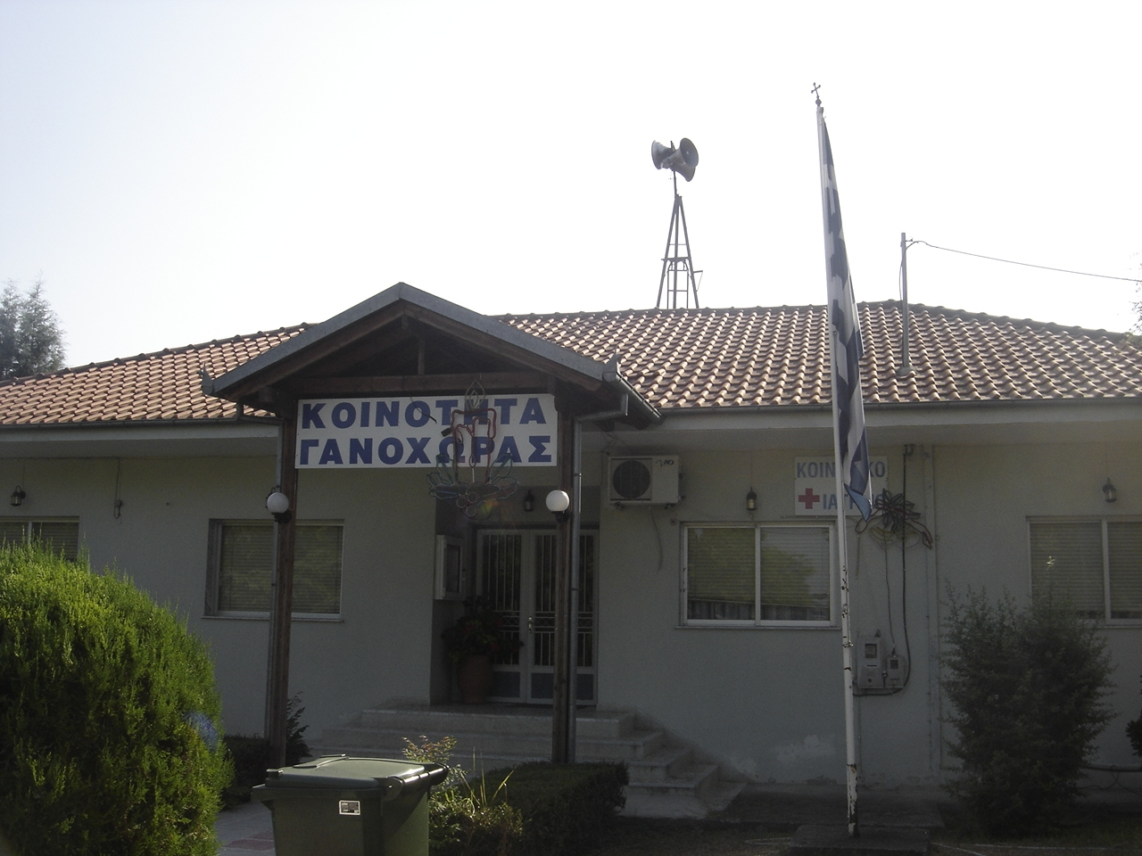 The community centre ("Kinotita") in Ganohora.